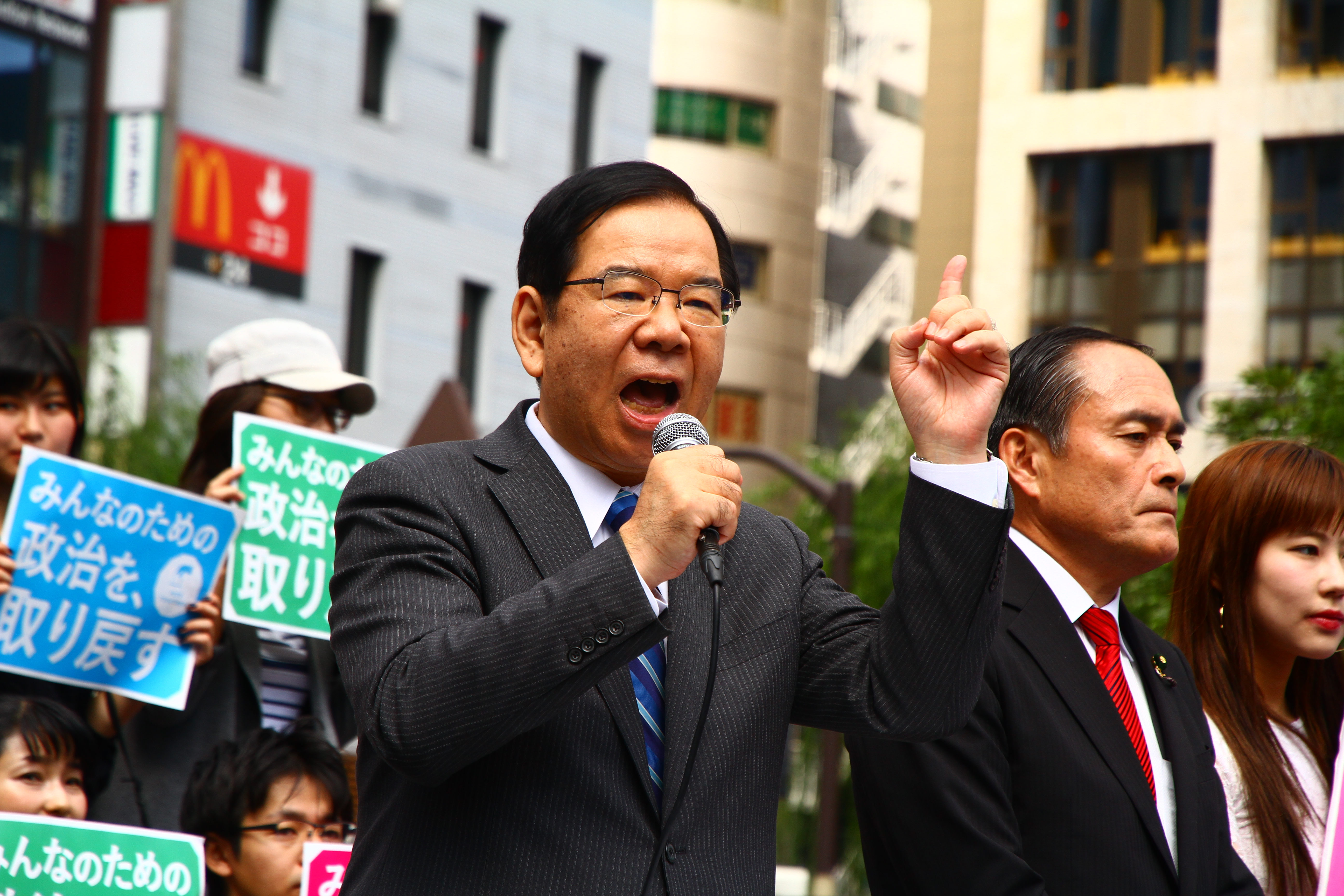 Kazuo Shii at SL Square of Shimbashi Station, Tokyo in October 8, 2017. The right is Tadatomo Yoshida and Yukino Baba.